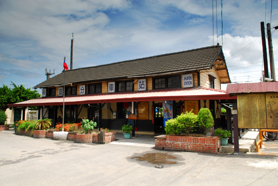 JhuiFen Station is a local train station of Taiwan's Western main rail line. It's located within the boundary of DaDu Township, TaiChung County. The wooden station house built in 1922 has been appointed as a county heritage site.